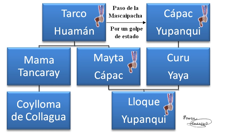 This the family of Tarco huaman